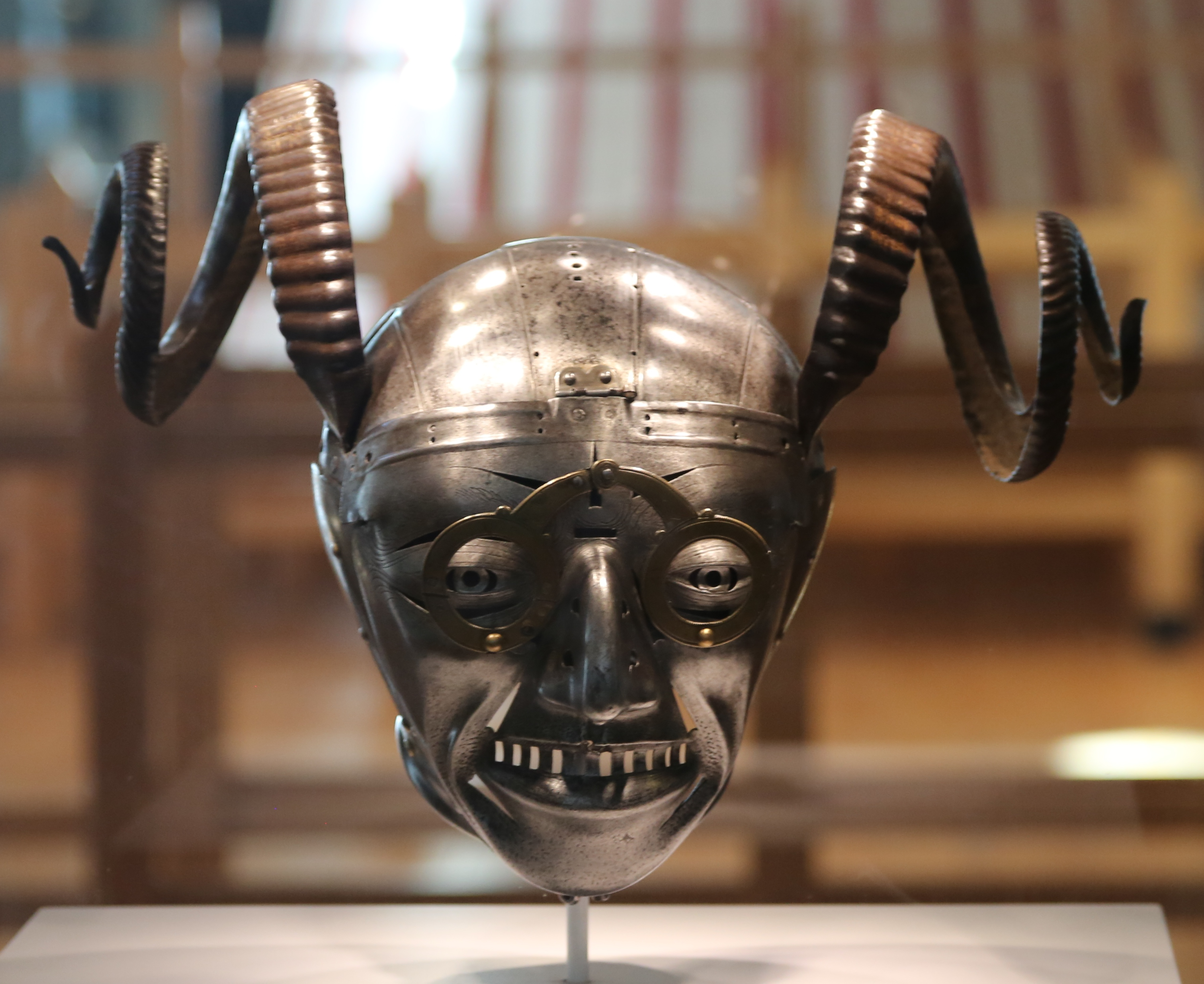 Photo of the horned helmet that was the basis of the royal armories logo